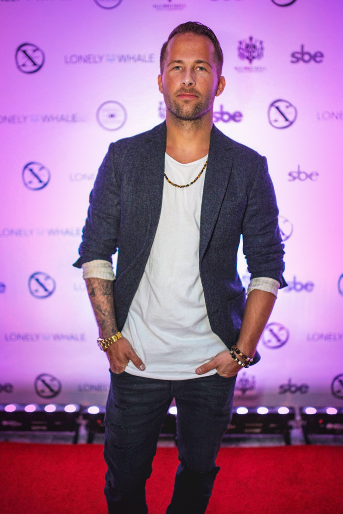 Mikael B at his solo show AWAKE at SLS Brickell Hotel in Miami, Fl